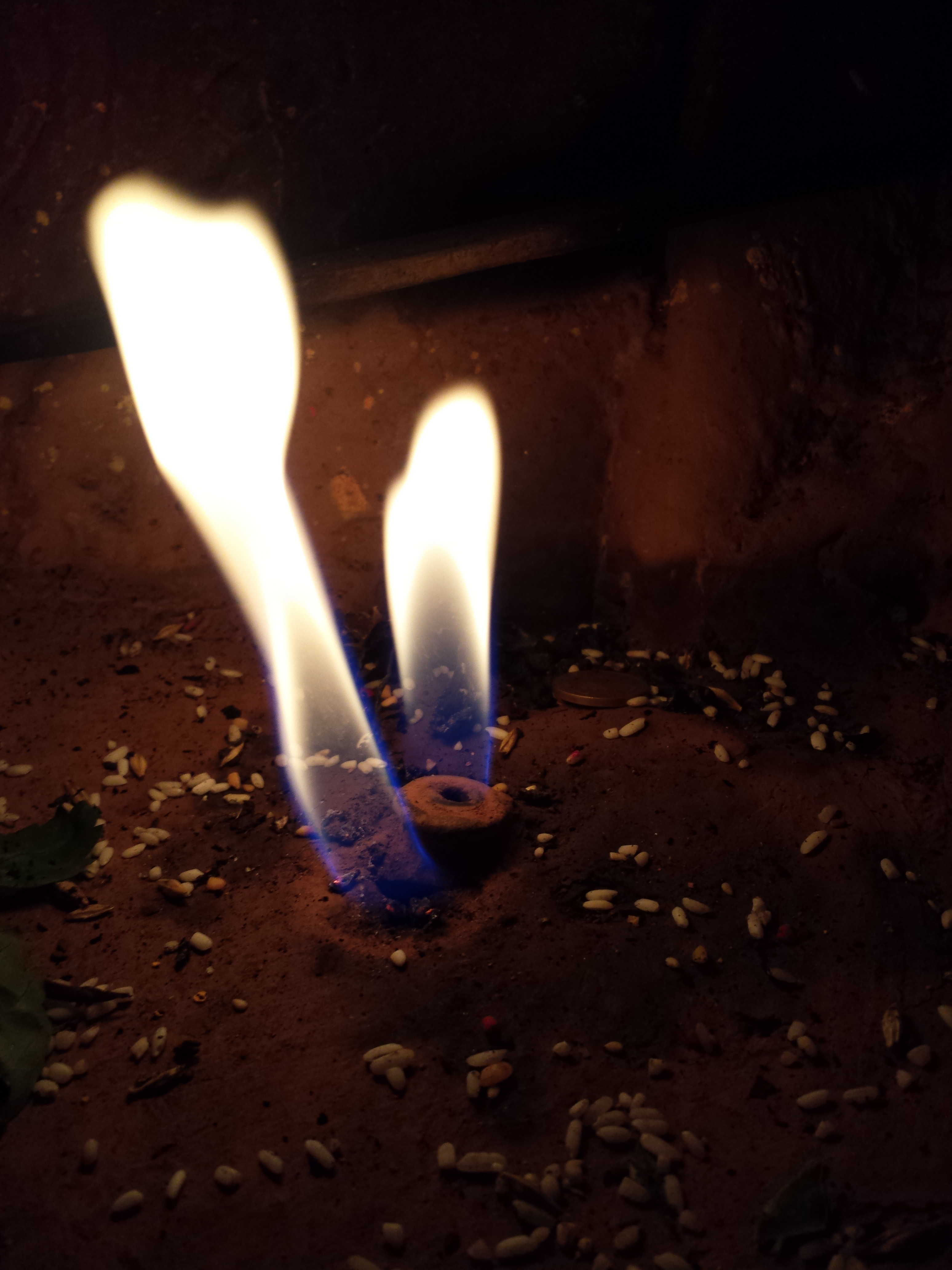 Nabhisthan